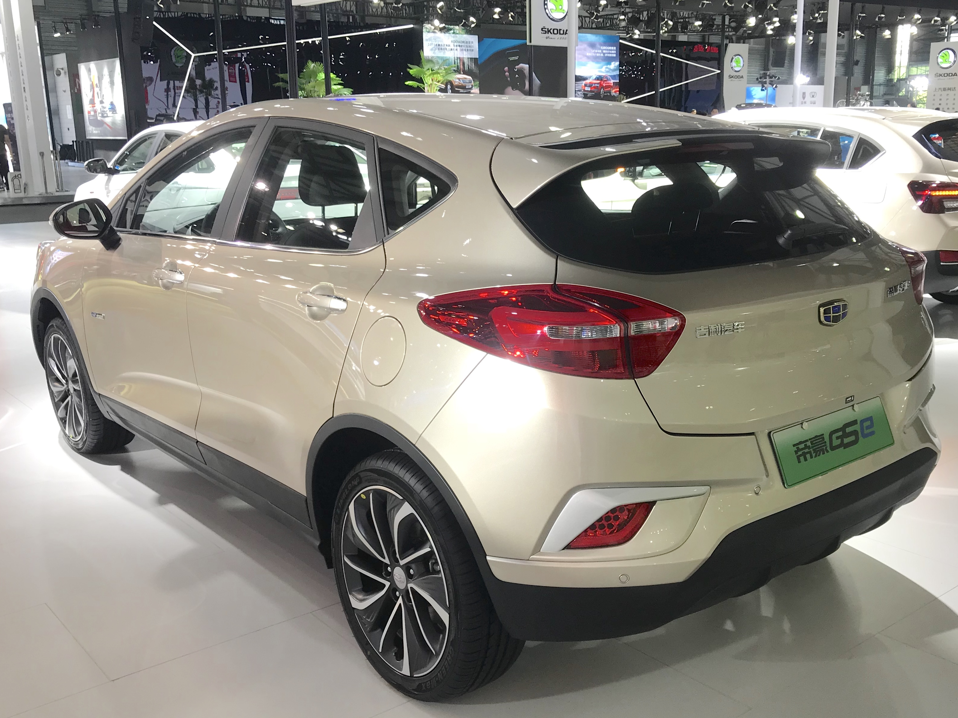 Geely Emgrand GSe rear